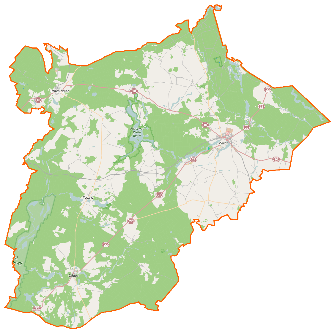 Map of Powiat wałecki, Poland This map of Powiat wałecki was created from OpenStreetMap project data, collected by the community. This map may be incomplete, and may contain errors. Don't rely solely on it for navigation.